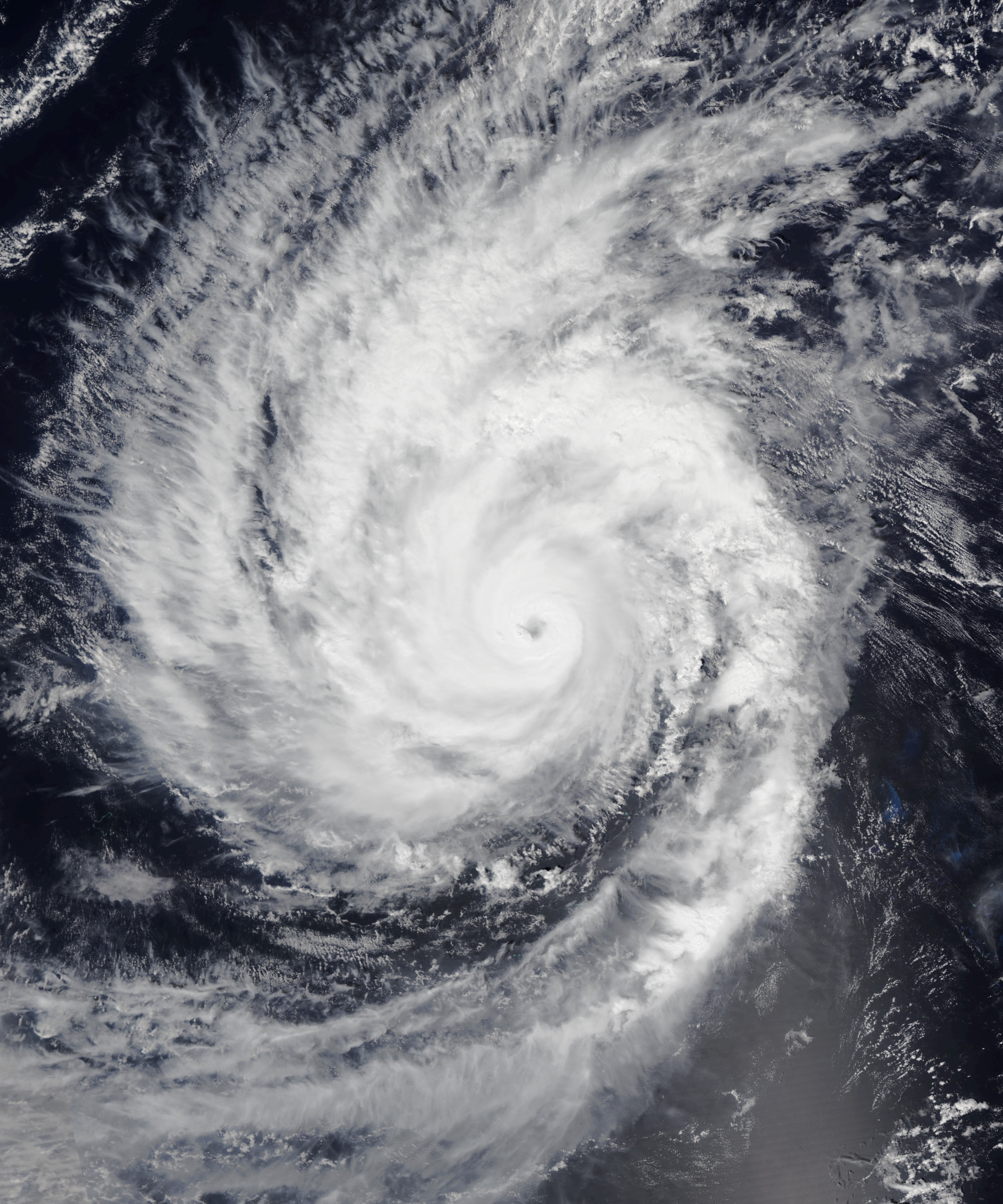 Typhoon Wutip on February 23, 2019